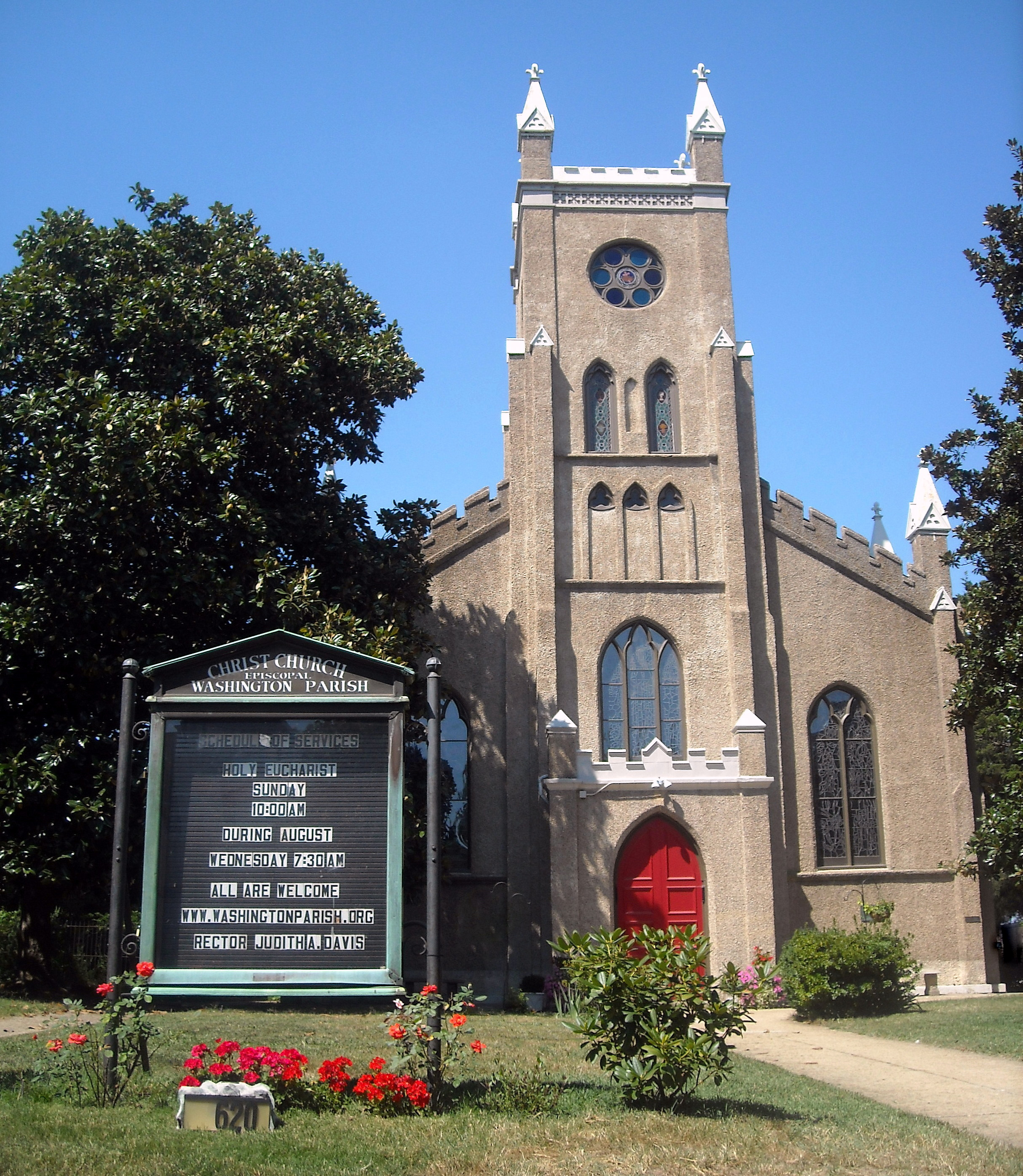 Christ Church, Washington Parish (also known as Christ Church, Navy Yard) located at 620 G Street, SE in the Capitol Hill neighborhood of Washington, D.C. Incorporated in 1794, Christ Church became the city's first Episcopal parish. The Gothic Revival church building, designed by Benjamin Henry Latrobe in 1806, is listed on the National Register of Historic Places and is a contributing property to the Capitol Hill Historic District.